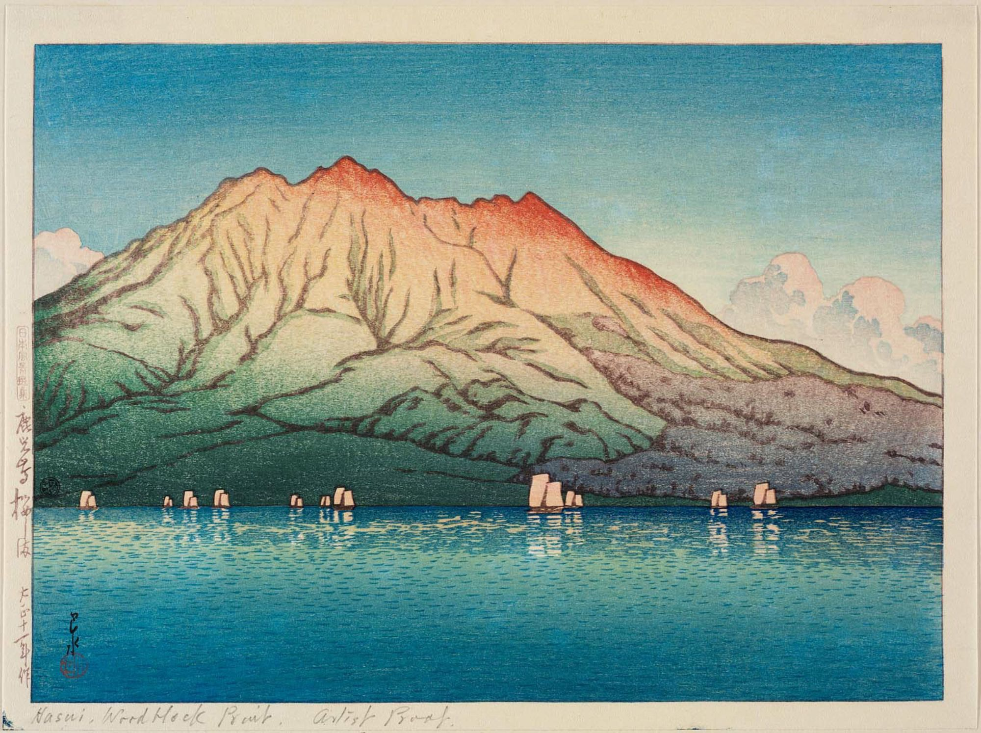 Sakurajima, Kagoshima, from the series Selected Views of Japan (Nihon fūkei senshū), woodblock print